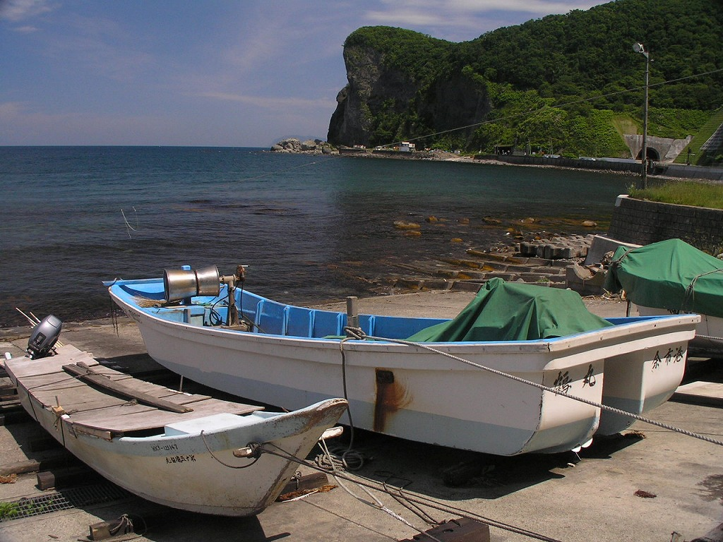 shimadomari-Fishing port 北海道島泊漁港